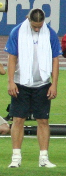 World Athletics Championships 2007 in Osaka - participants in the final of the men's Javelin competition